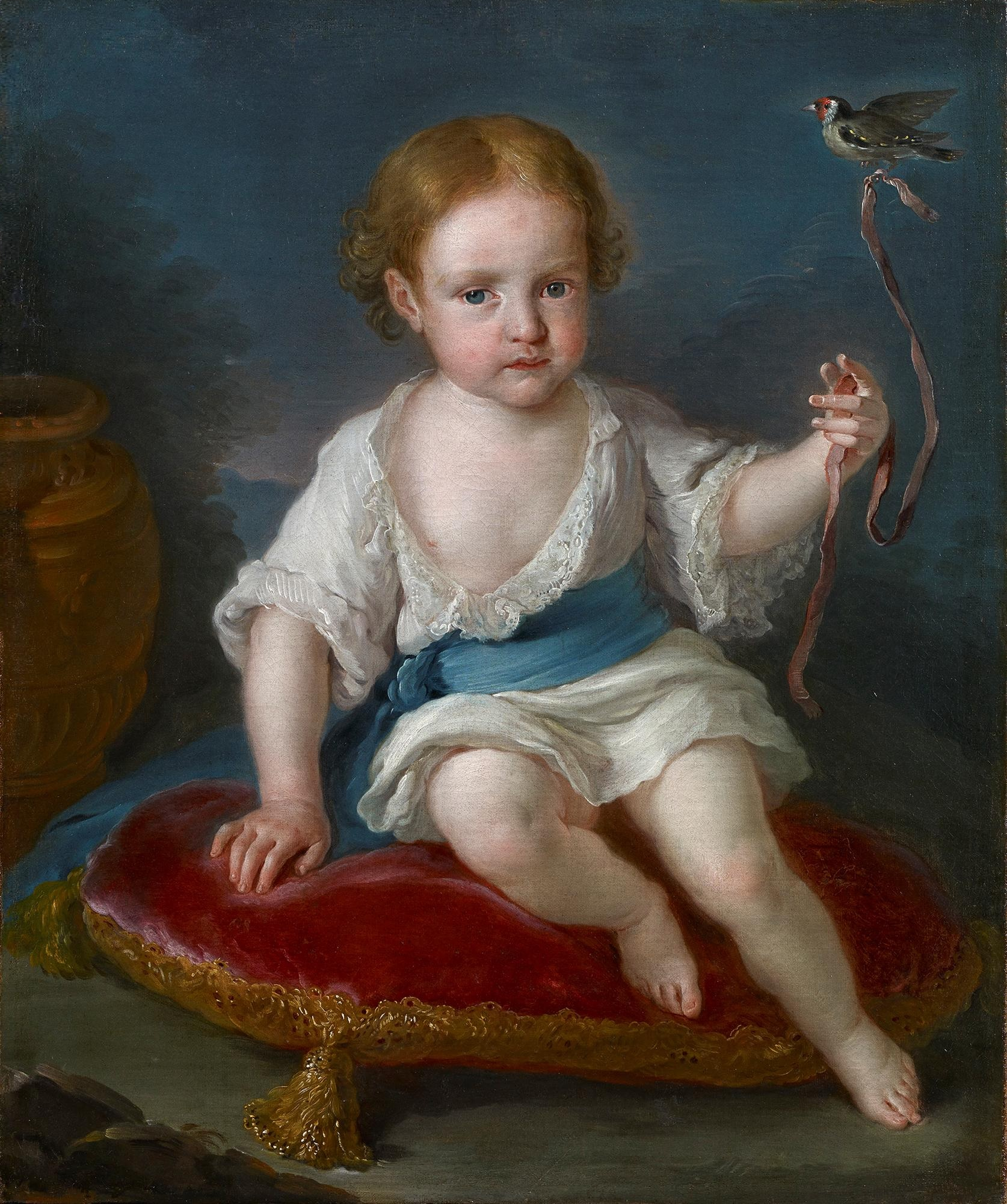 So-called portrait of Prince Ferdinand of Bourbon, future King of the Two Sicilies. Inscription: Andrés Pintor Diaz y Granada-Venegas / Vicente López y Portaña